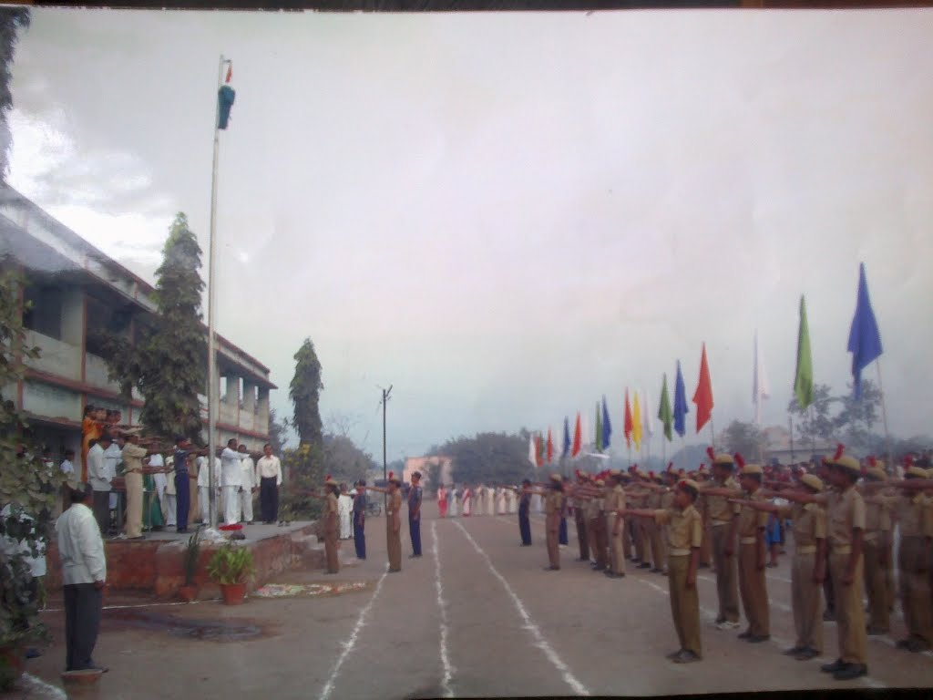 Photo of Independence Day Parade.